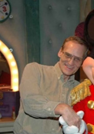 Artist Gray Lyda with his boss, Mickey Mouse, at Disneyland